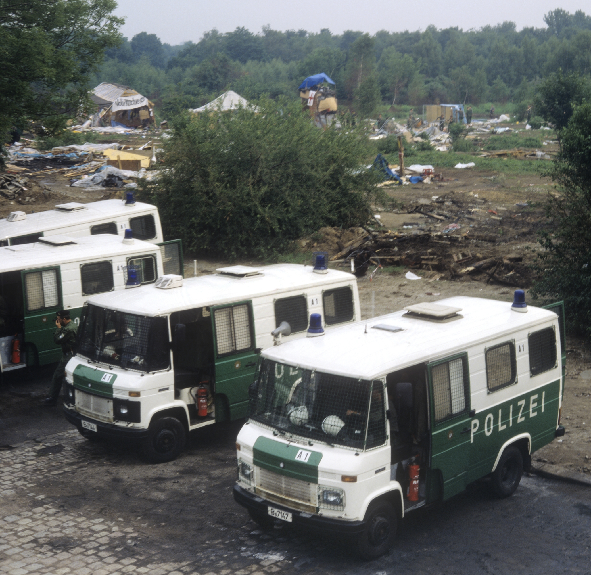 Kubat-Dreieck on the Berlin Wall, taken by police, July 1st 1988